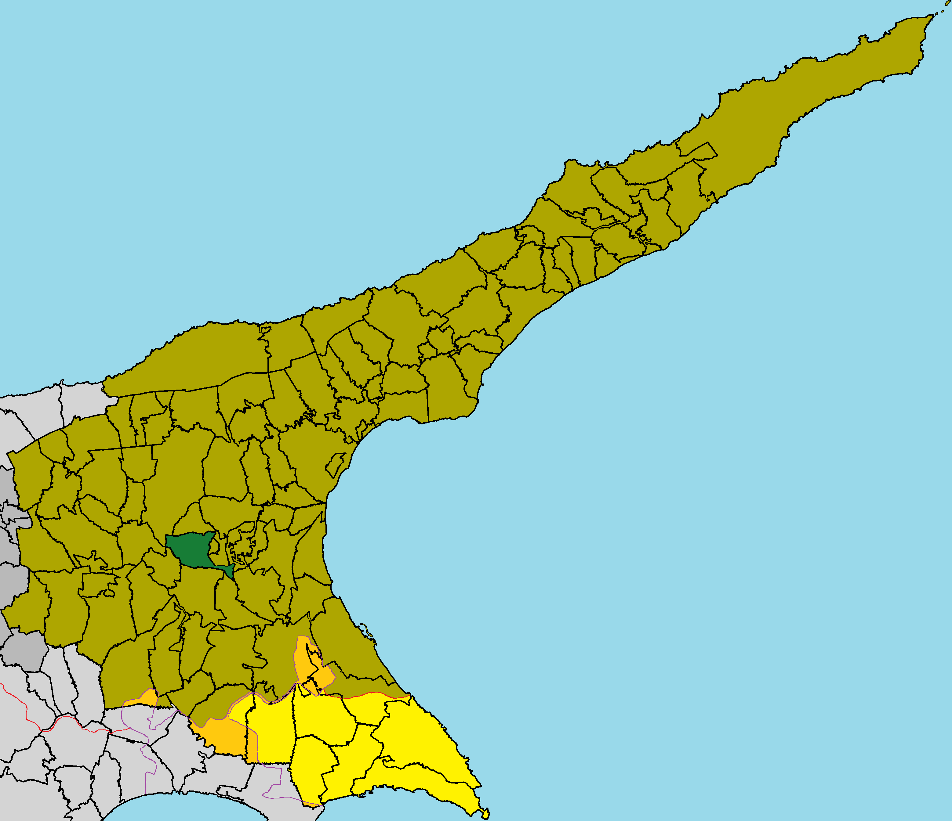 Peristerona in Famagusta District (de jure).